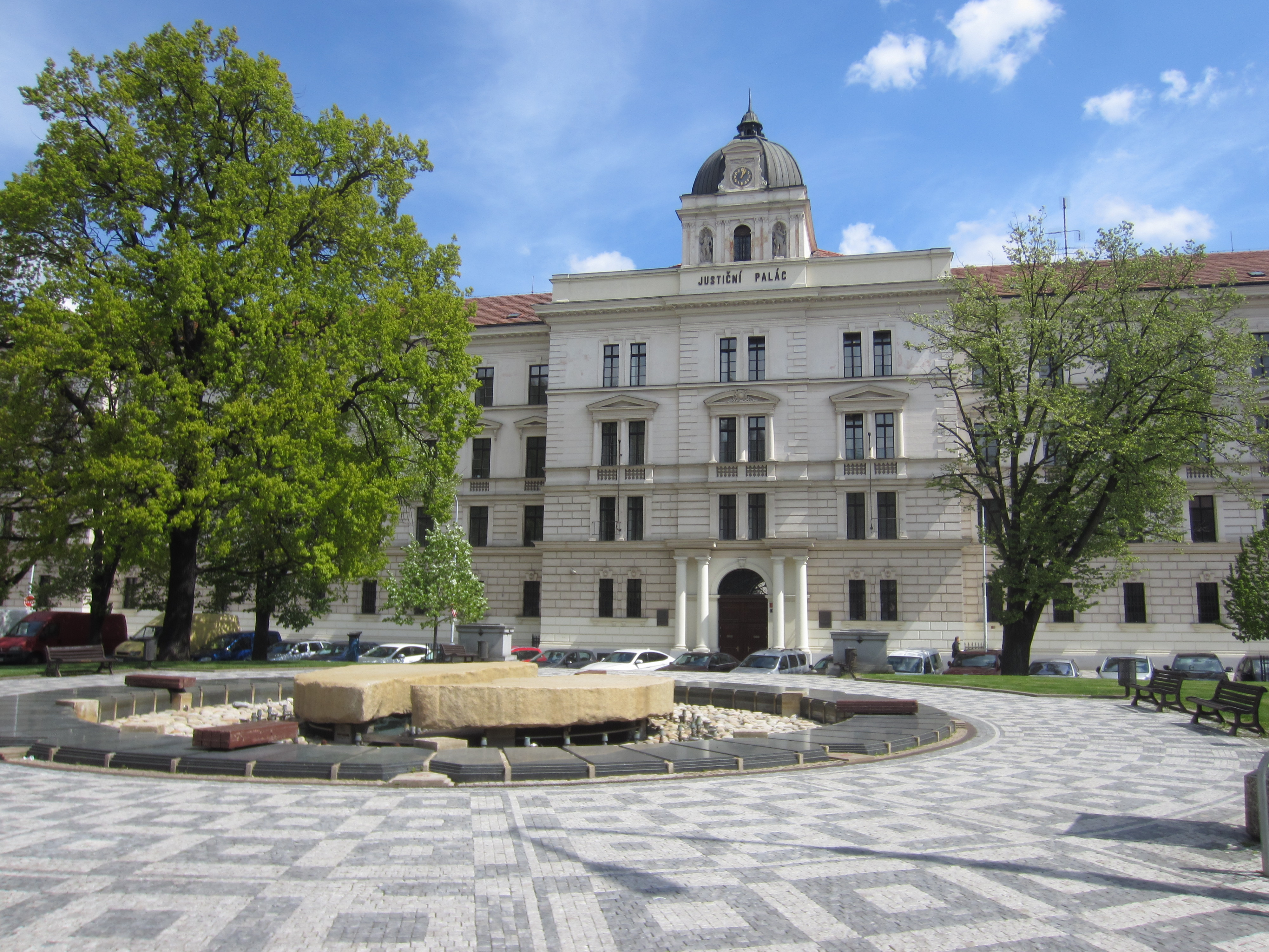 Prague, Czech Republic, April 2016